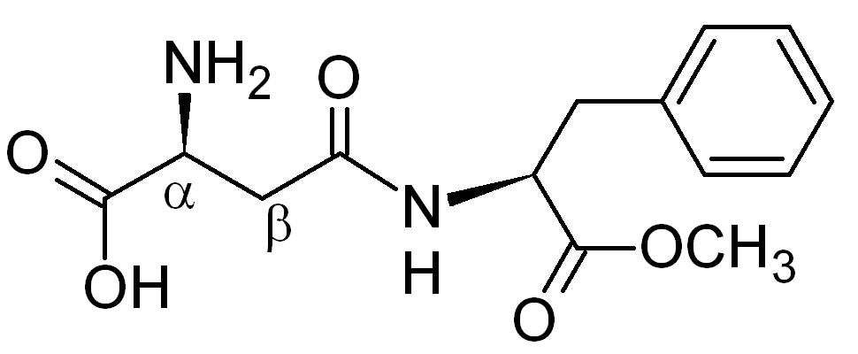 Structure of